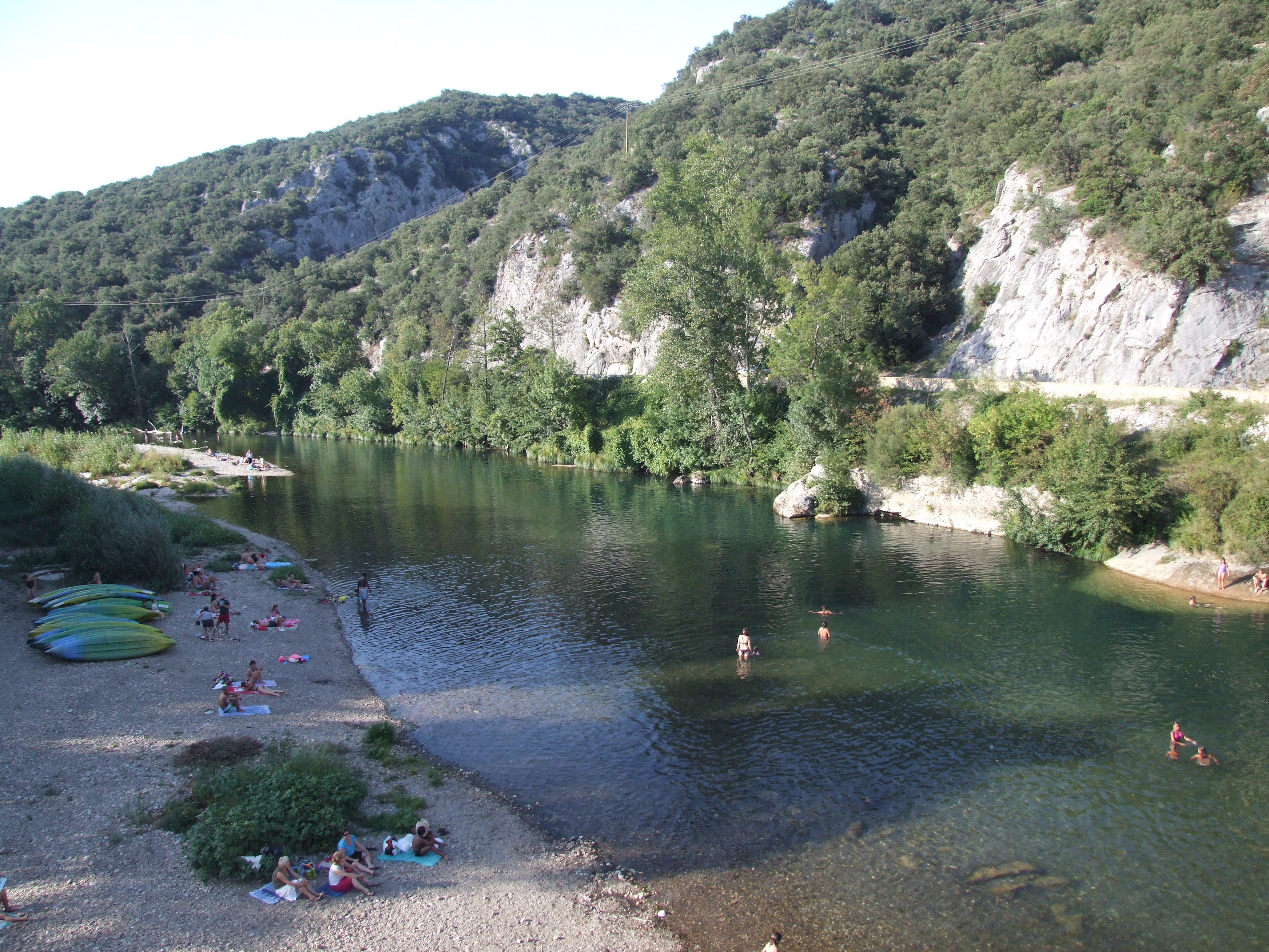 The Pont St André over the Cèze in the commune of Saint-André-de-Roquepertuis, ( post code is F30630 and INSEE 30230). in Gard, France. A view upstream, as the river exits the Gorges de Cèze the textile beach is popular with canoeists